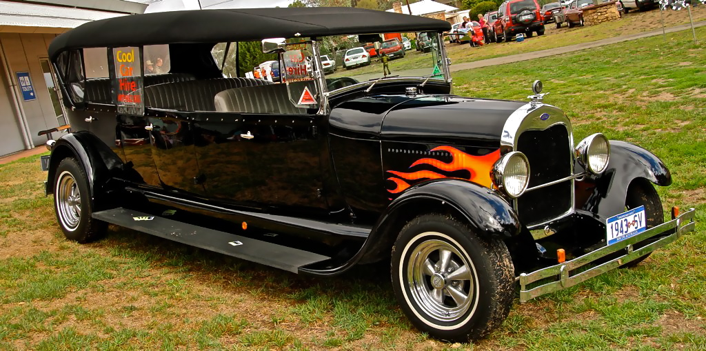 Stretch Model T Ford in black with wheel arch flames.